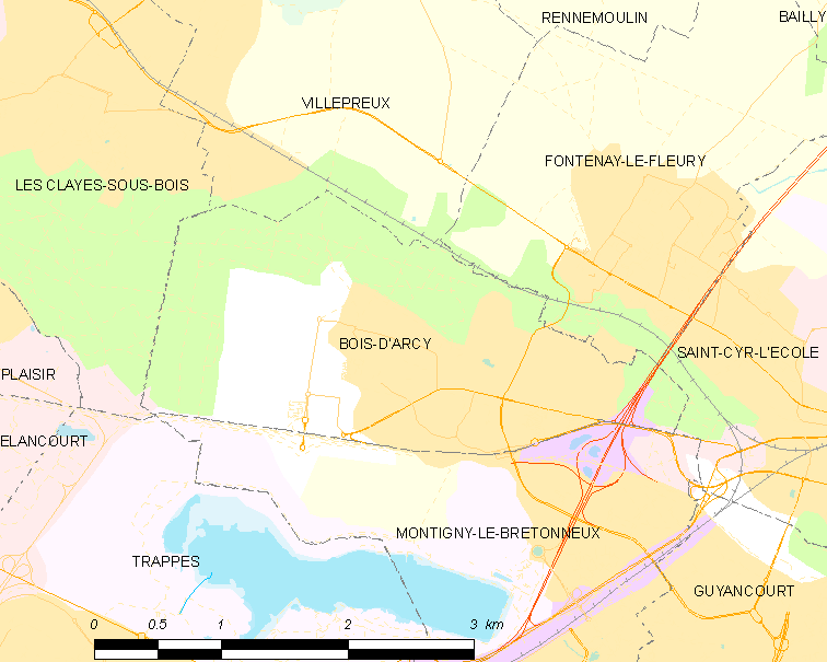 Map of French municipality Bois-d'Arcy